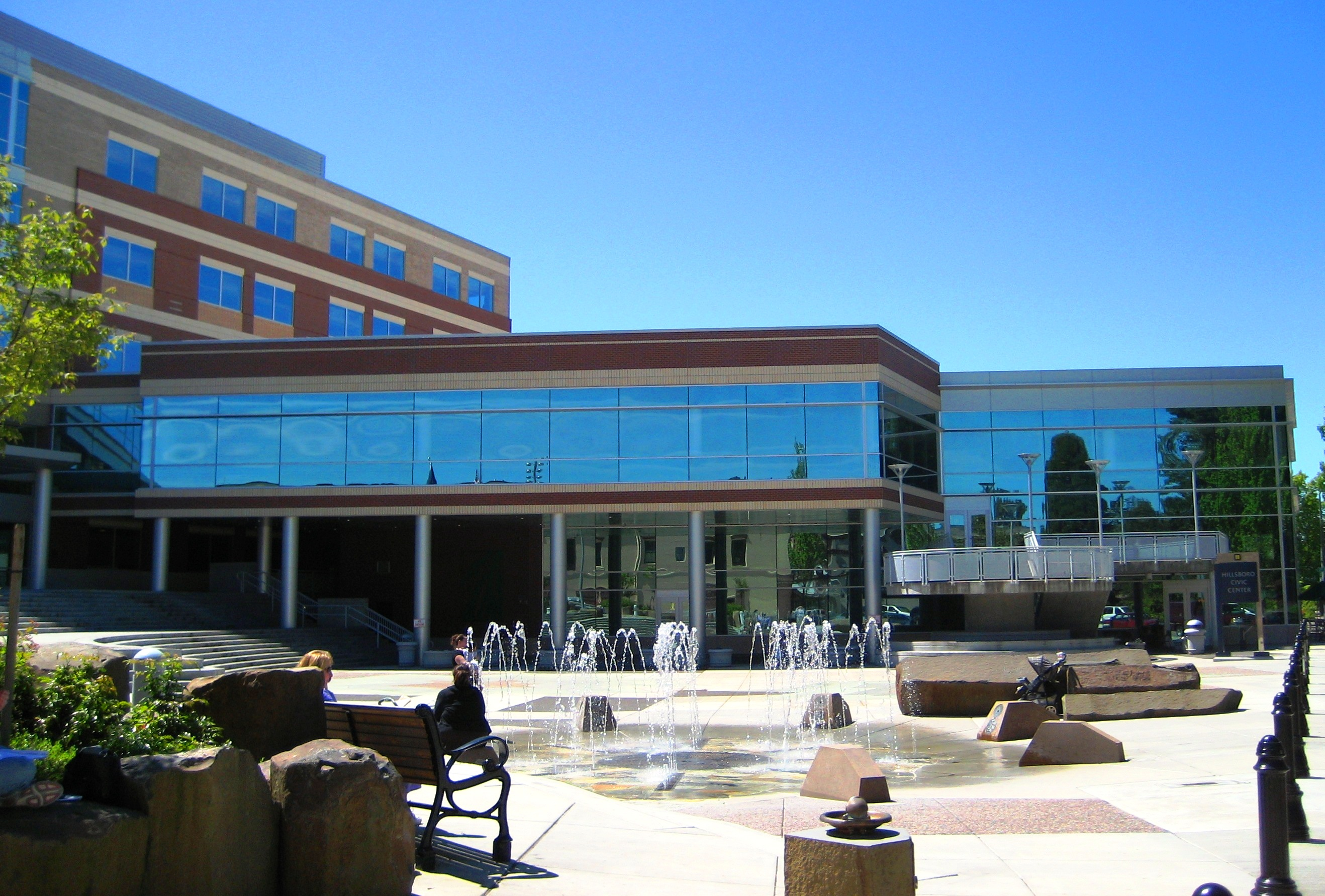 The Hillsboro Civic Center in Hillsboro.